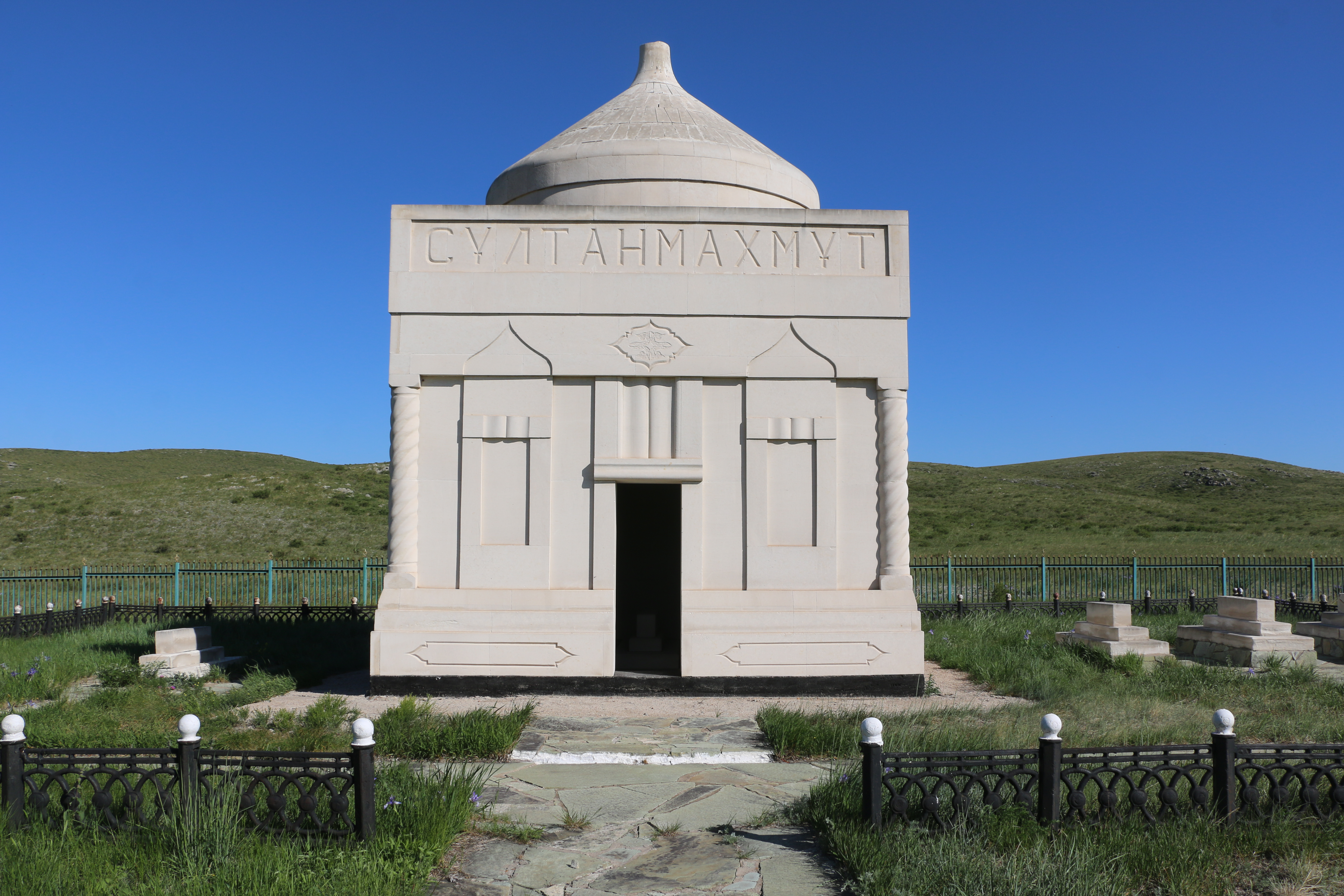 Toraigyrov Mausoleum